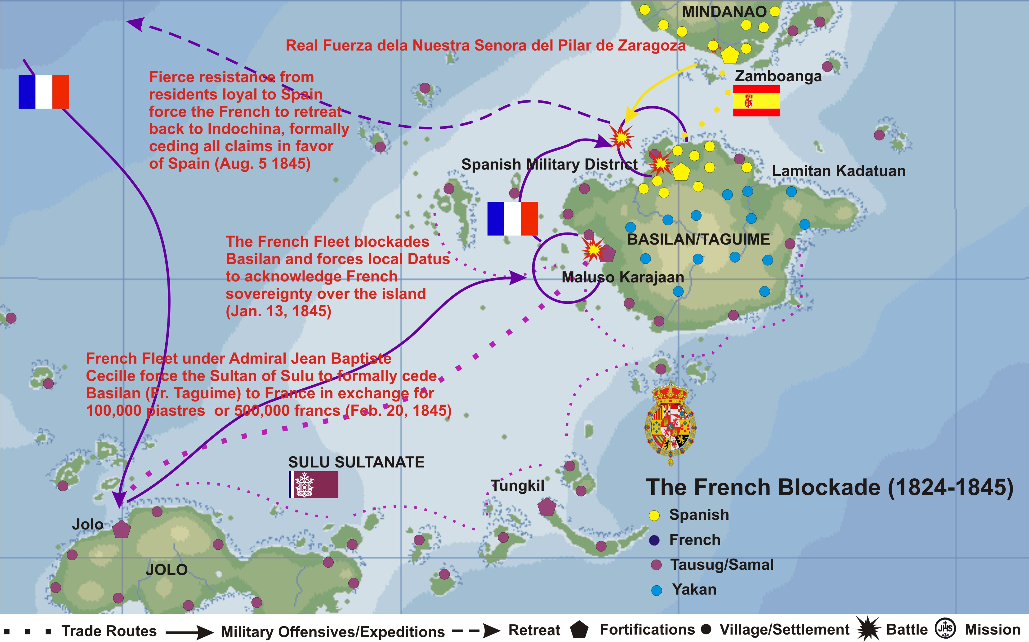 Basilan_Expanded_1824-1845